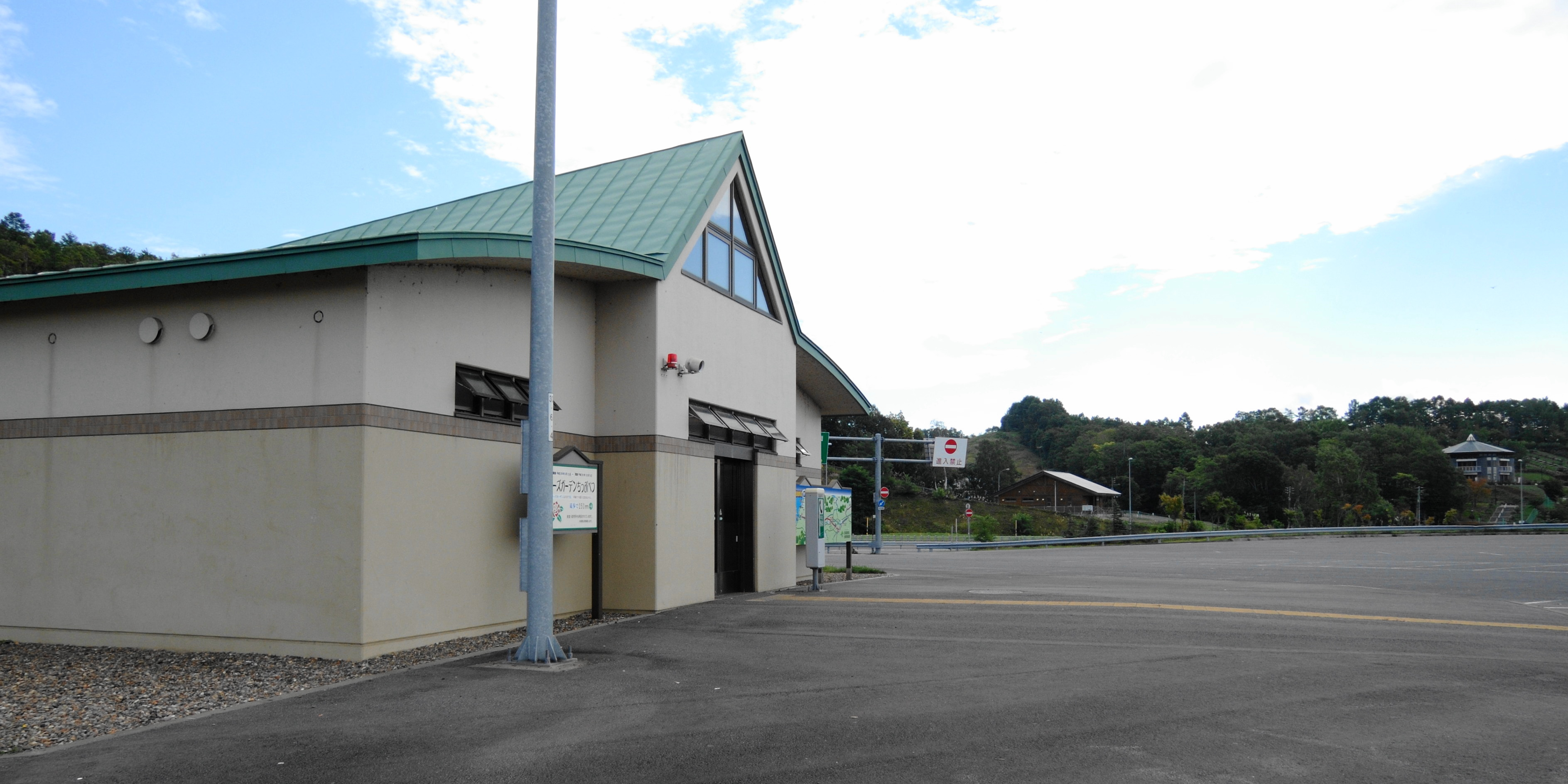 Chippubetsu Parking Area,Hokkaido prefecture,Japan